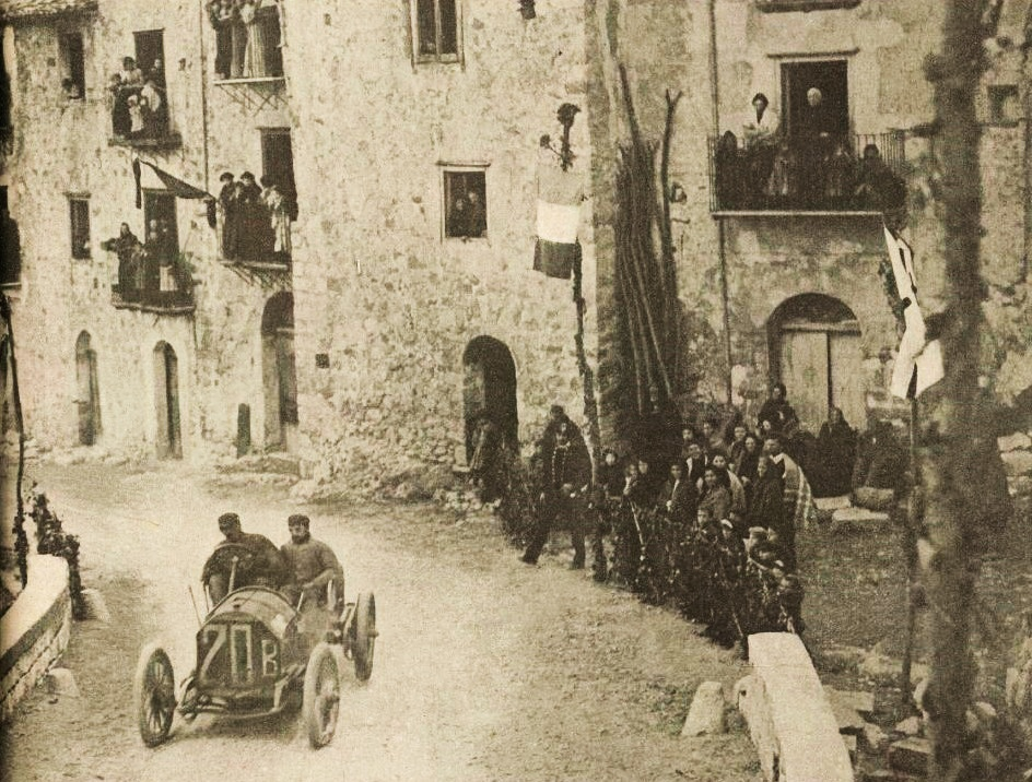 Felice Nazzaro and co-driver/mechanic Antonio Fagnano [1] at Targa Florio on Sicilia on Sunday 21 April. They drove one of the 4-5 Fiat 28/40 HP in this race. They had entry #20B. They were the WINNER of this race.[2] This is in Petralia, right outside Palermo, and the picture is a scan of the "La Vie au grand air" (page 303, 4 May 1907), a outdoor sports magazine, published 1898 to 1922.